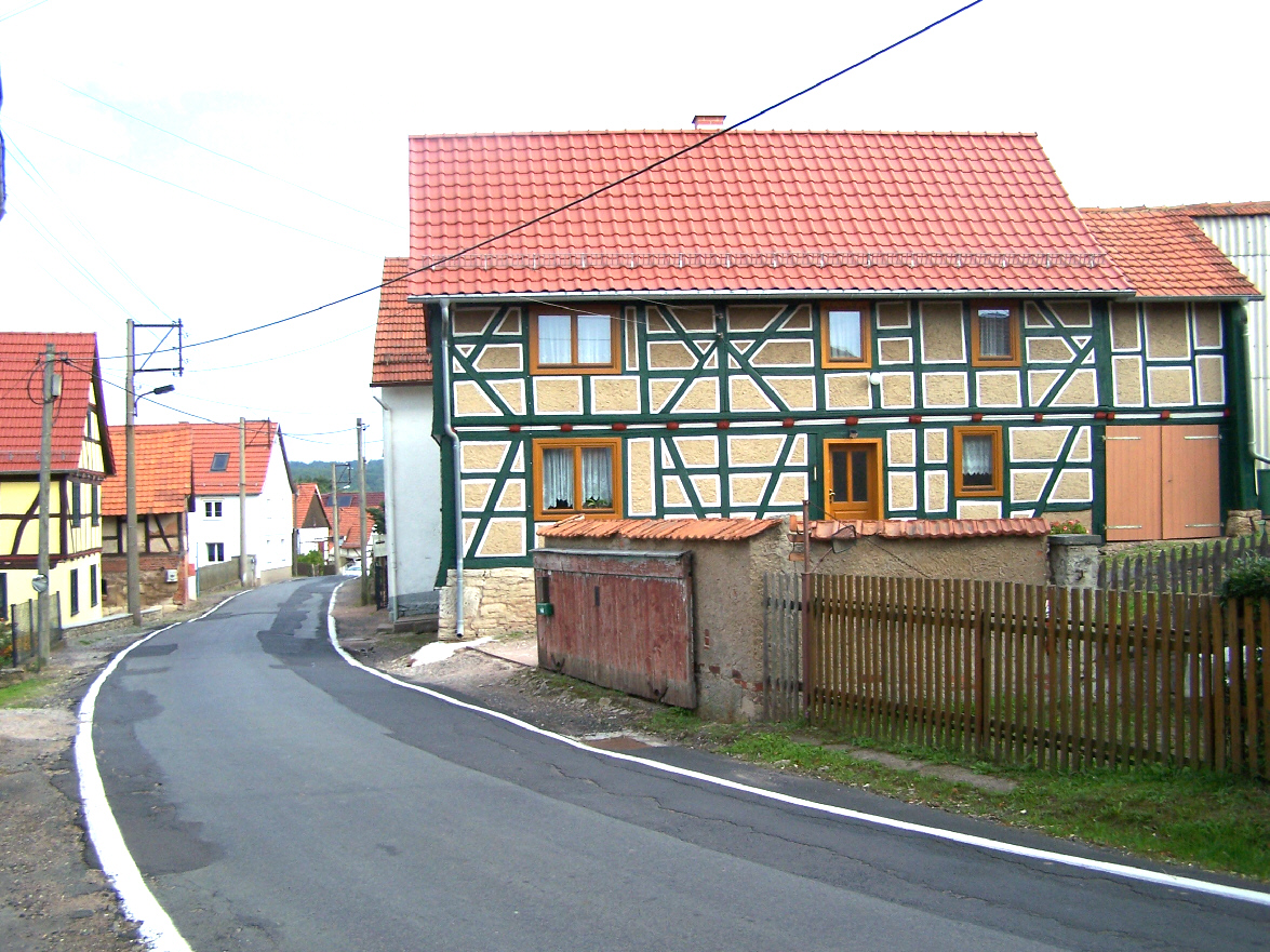 Auf der Wolfsburg - the main road in Wolfsburg part of Wolfsburg-Unkeroda.